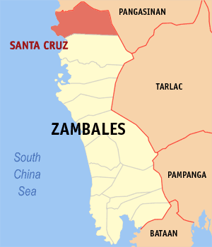 Map of Zambales showing the location of Santa Cruz